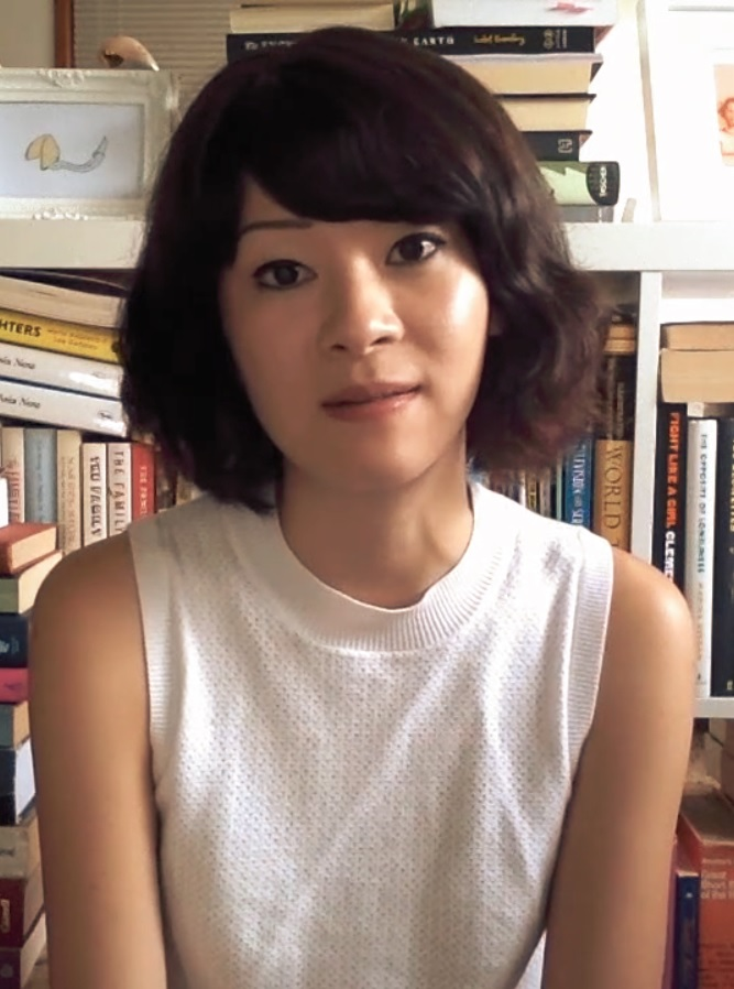 Australian writer and screenwriter Michelle Law is an ambassador for the 2017 Emerging Writers' Festival.